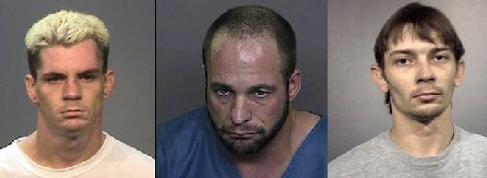 Images of alleged Barack Obama assassination plotters Tharin Gartrell, Nathan Johnson and Shawn Adolf.